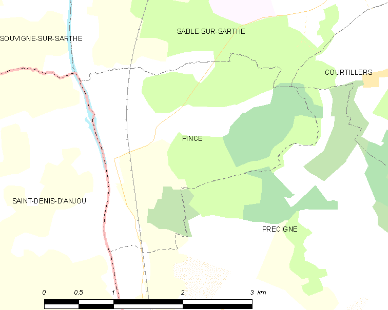 Map of French municipality